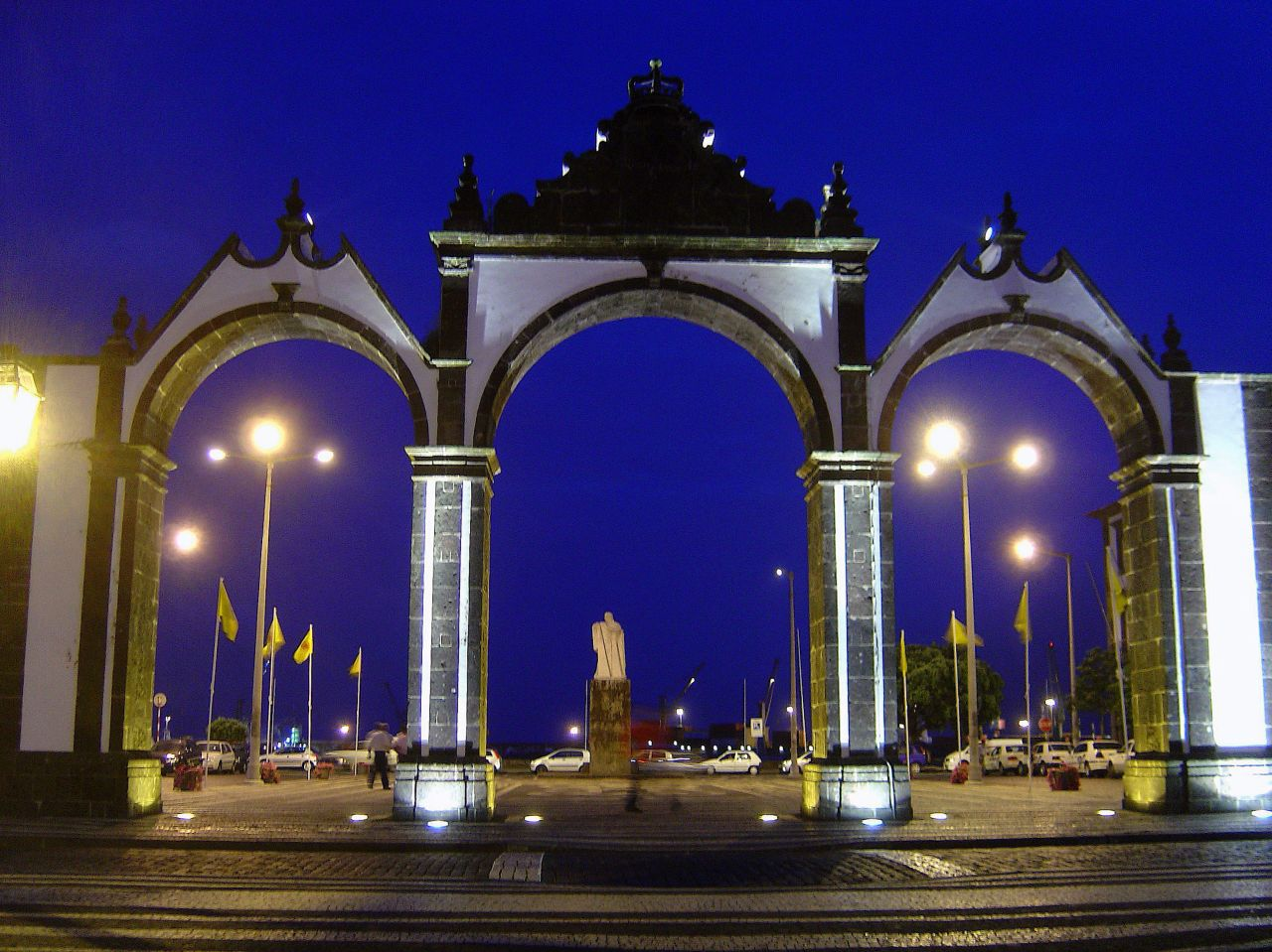 Ilha de S. Miguel See where this picture was taken. [?]